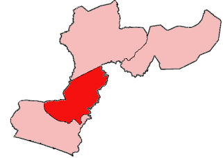 Map of Margibi County, Liberia showing Firestone District; created with the GIMP. Made by User:Acntx.